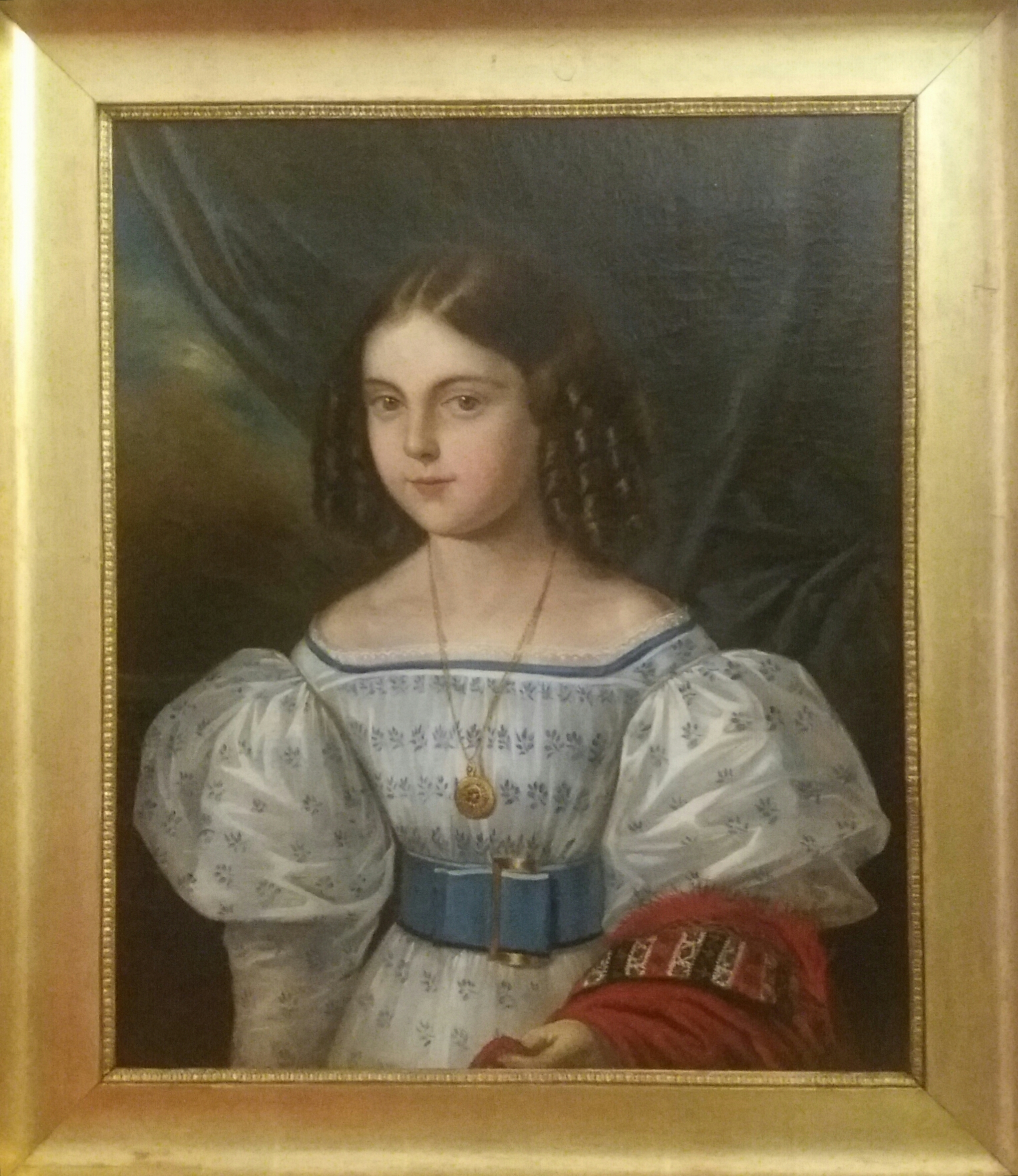 Luisa Brignole-Sale painted by Camillo Pucci